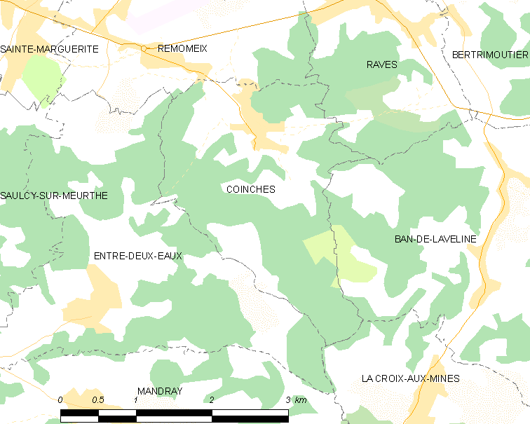 Map of French municipality Coinches